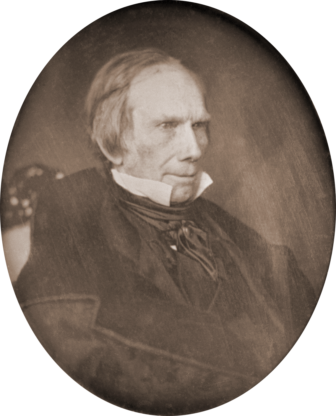 Sixth plate daguerreotype of Henry Clay. This was his favorite portrait of himself.